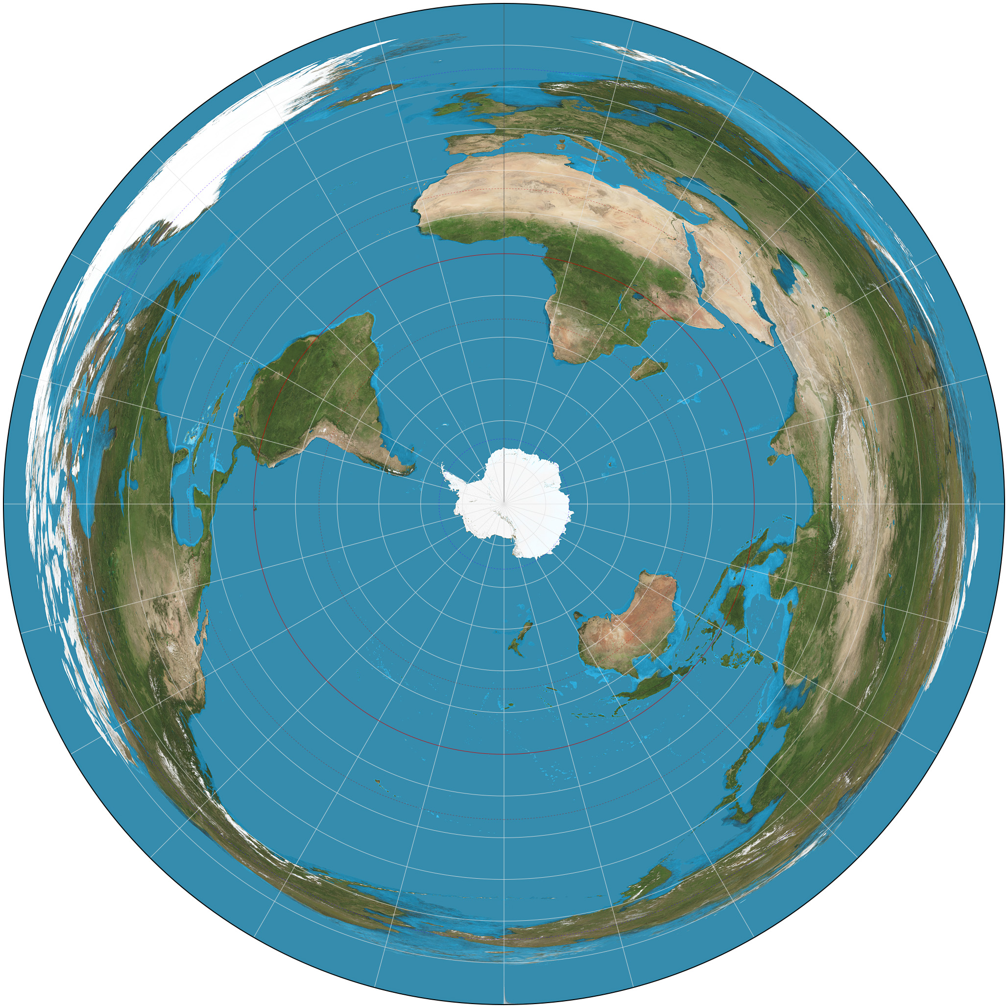 The world on azimuthal equidistant projection. 15° graticule, south polar aspect. Imagery is a derivative of NASA’s Blue Marble summer month composite with oceans lightened to enhance legibility and contrast. Image created with the Geocart map projection software.